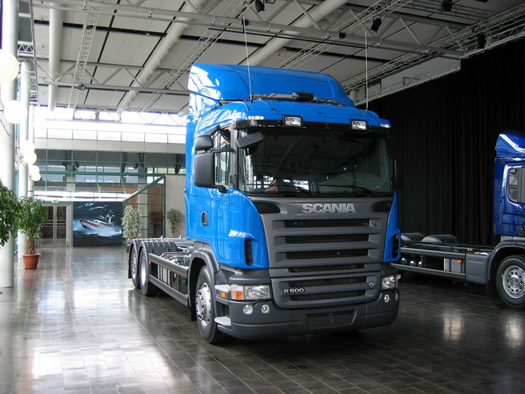 This picture can be found in gallery Scania AB